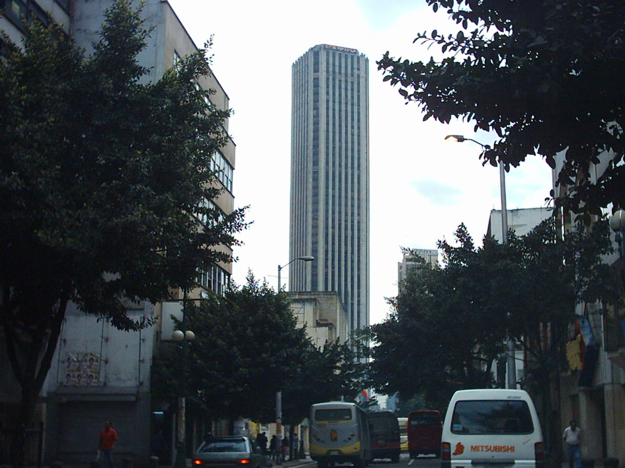 Colpatria Tower in Bogotá